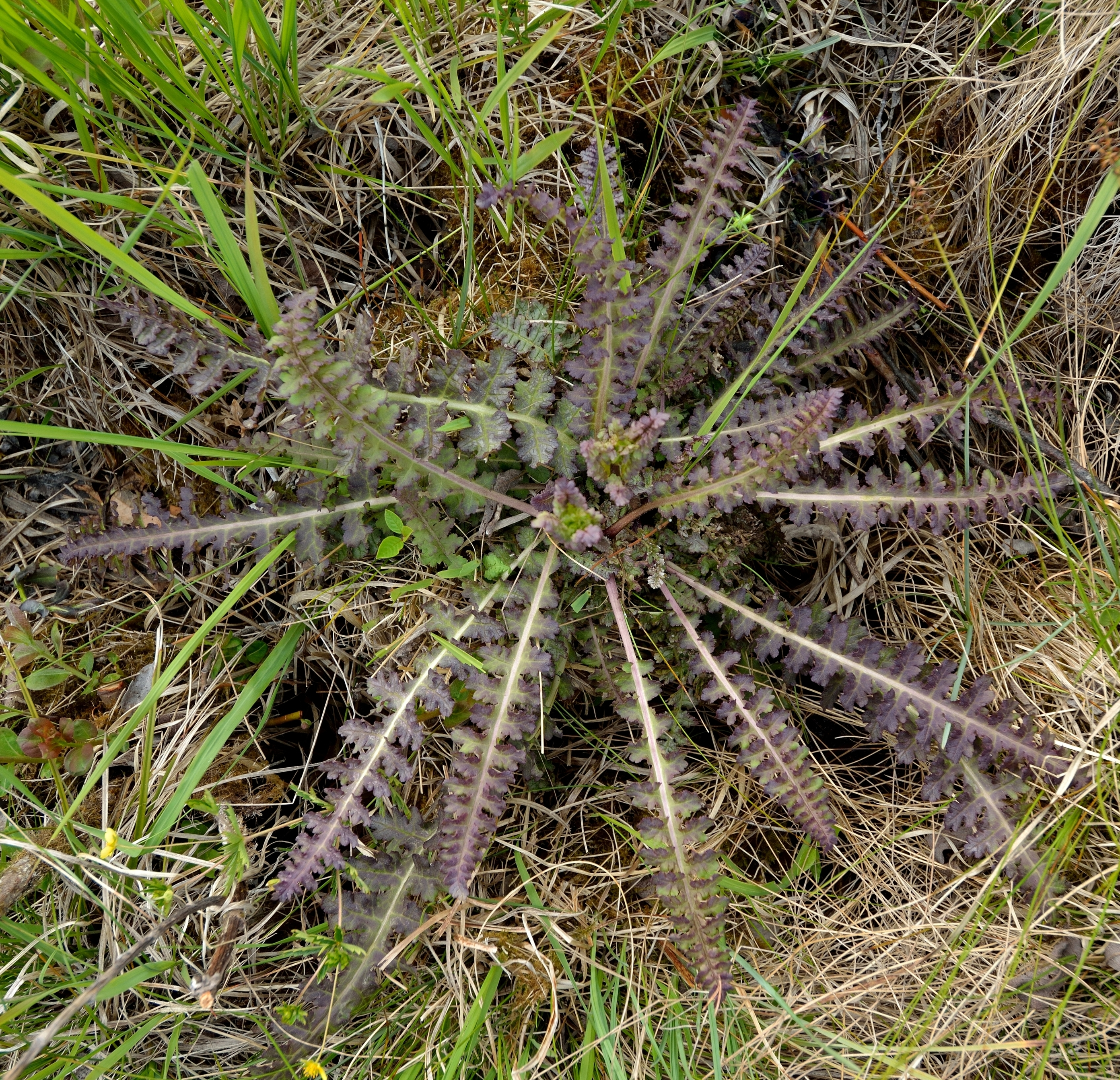 Basal rosette of the moor-king (Pedicularis sceptrum-carolinum). Niitvälja bog, Northwestern Estonia.